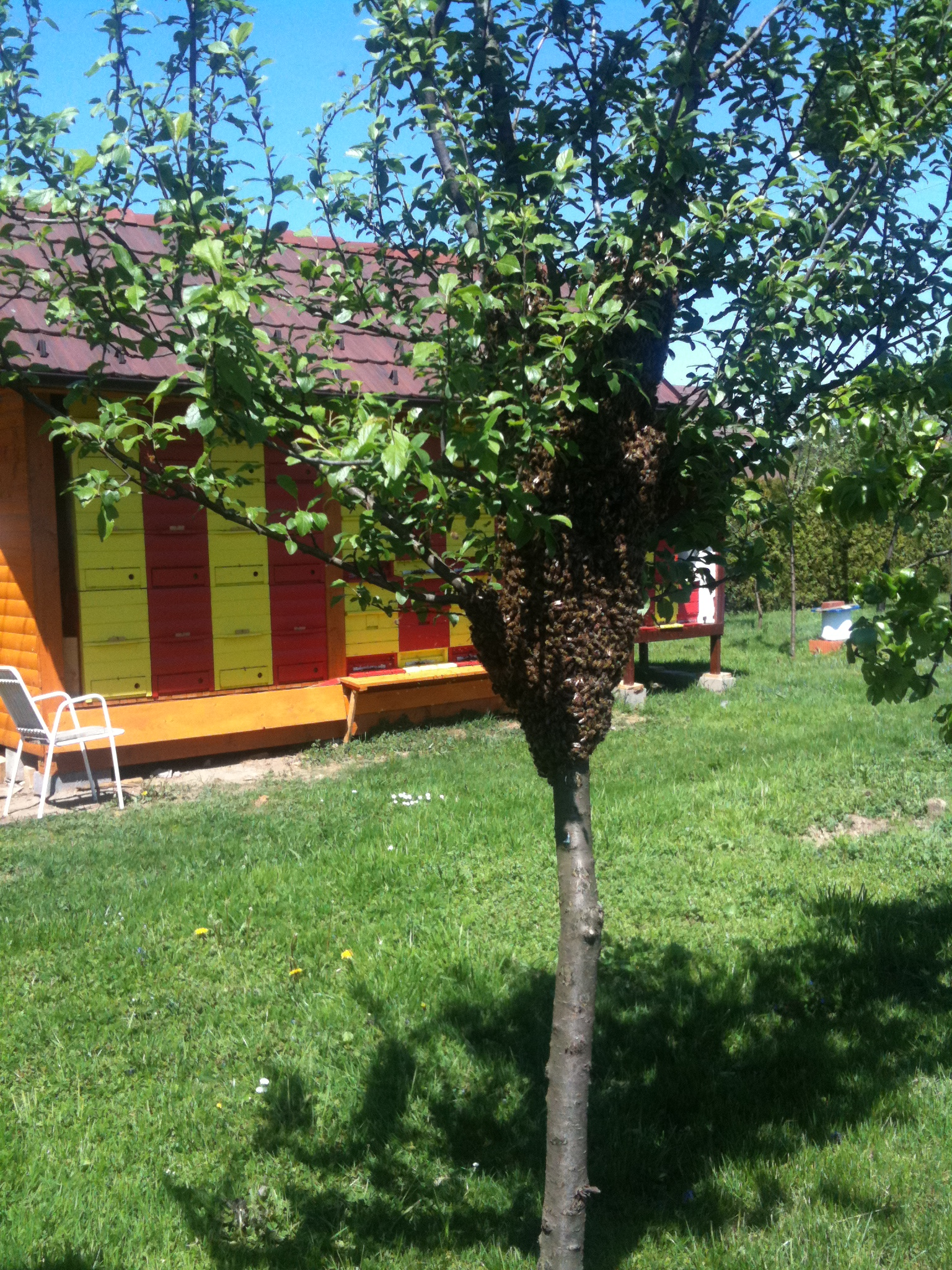 Swarm of bees on the tree, near the apiary.